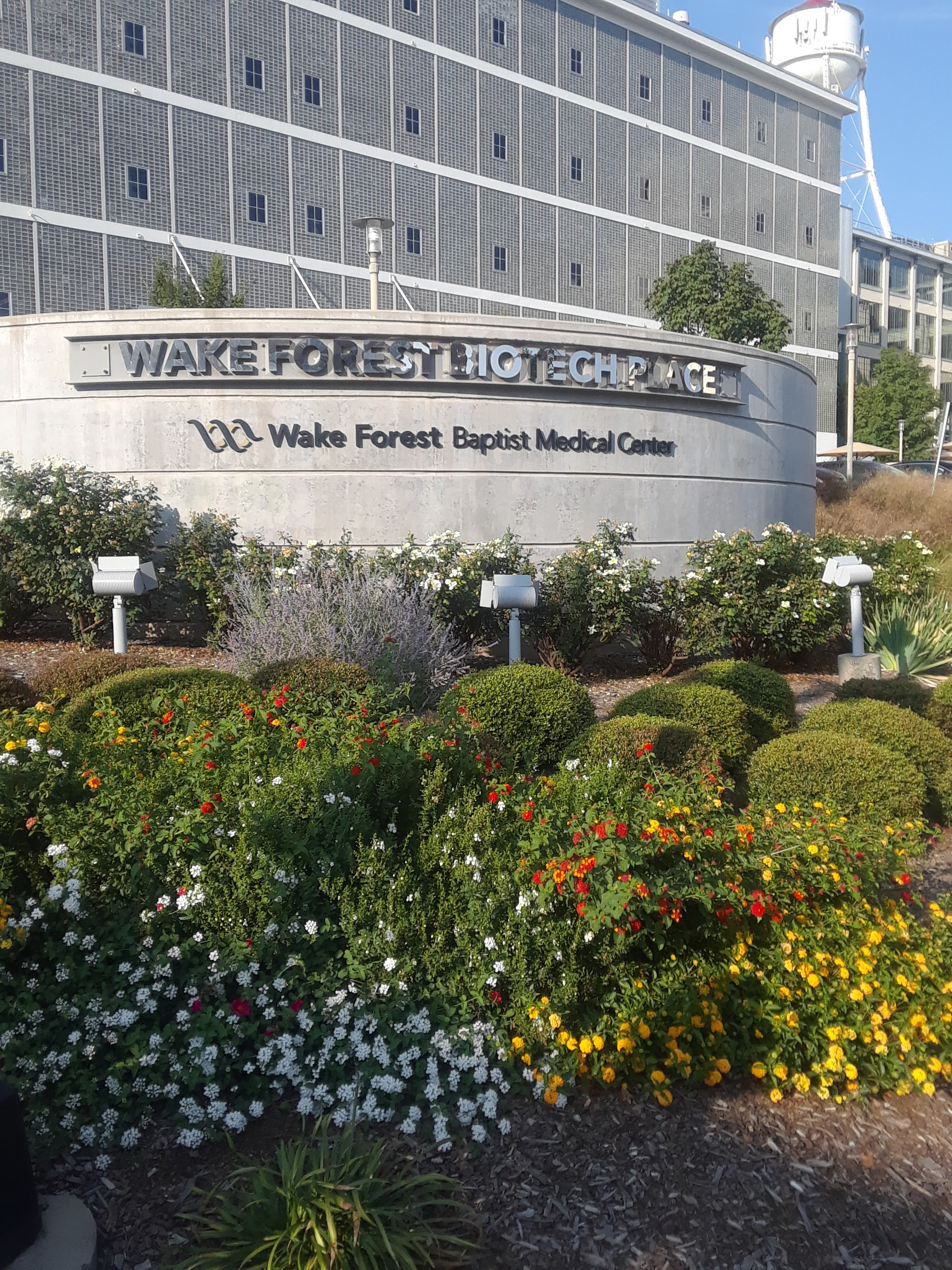 A summer picture of the Medical Center Sign with flowers in full bloom.